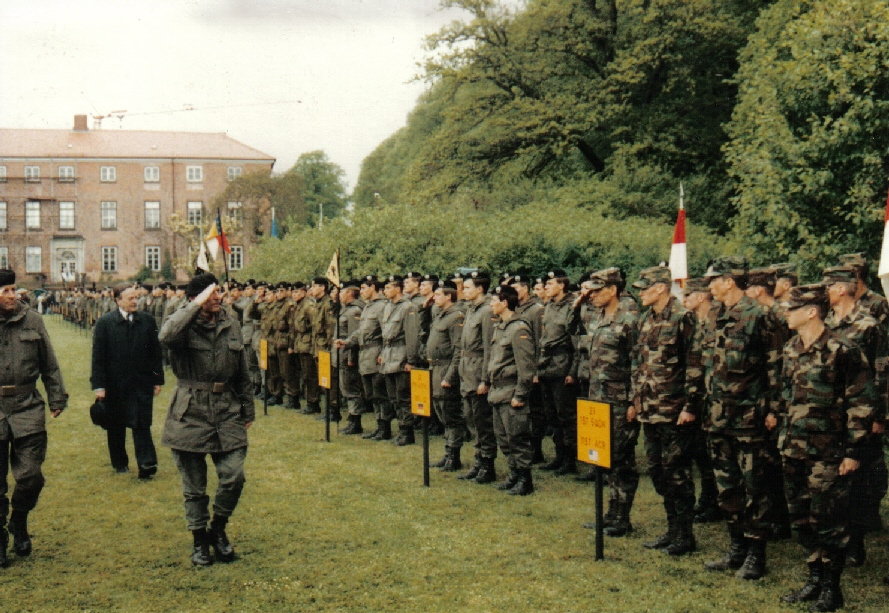 Philipp Freiherr von Boeselager reviewing competing teams at the 1988 International Boeselager Competition. Far right is the 11th ACR Boeselager Team.